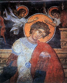 St. Lypp of Thesalonika